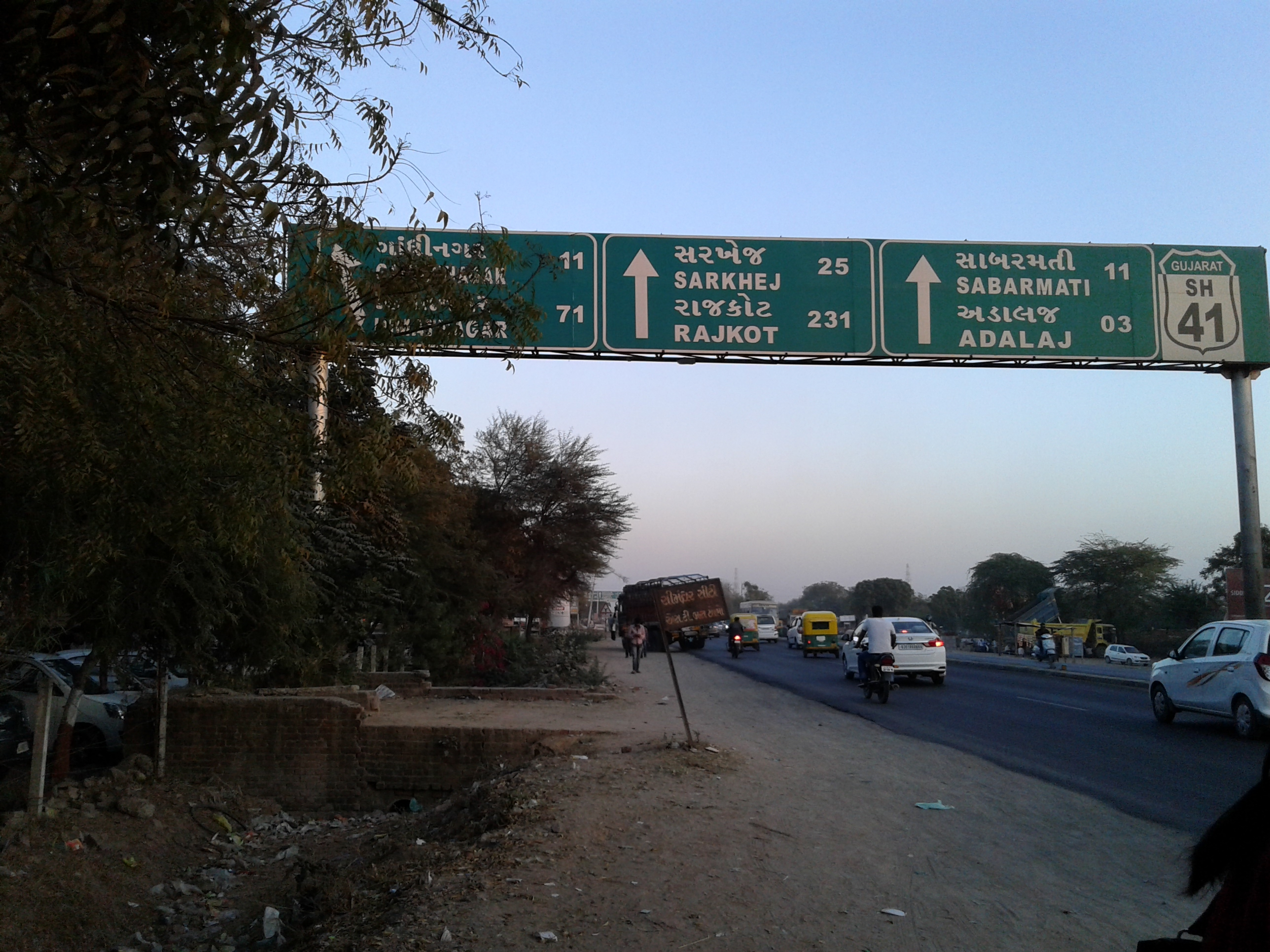 state highway 41 connect Ahmedabad to Palanpur via Mahesana and Unjha